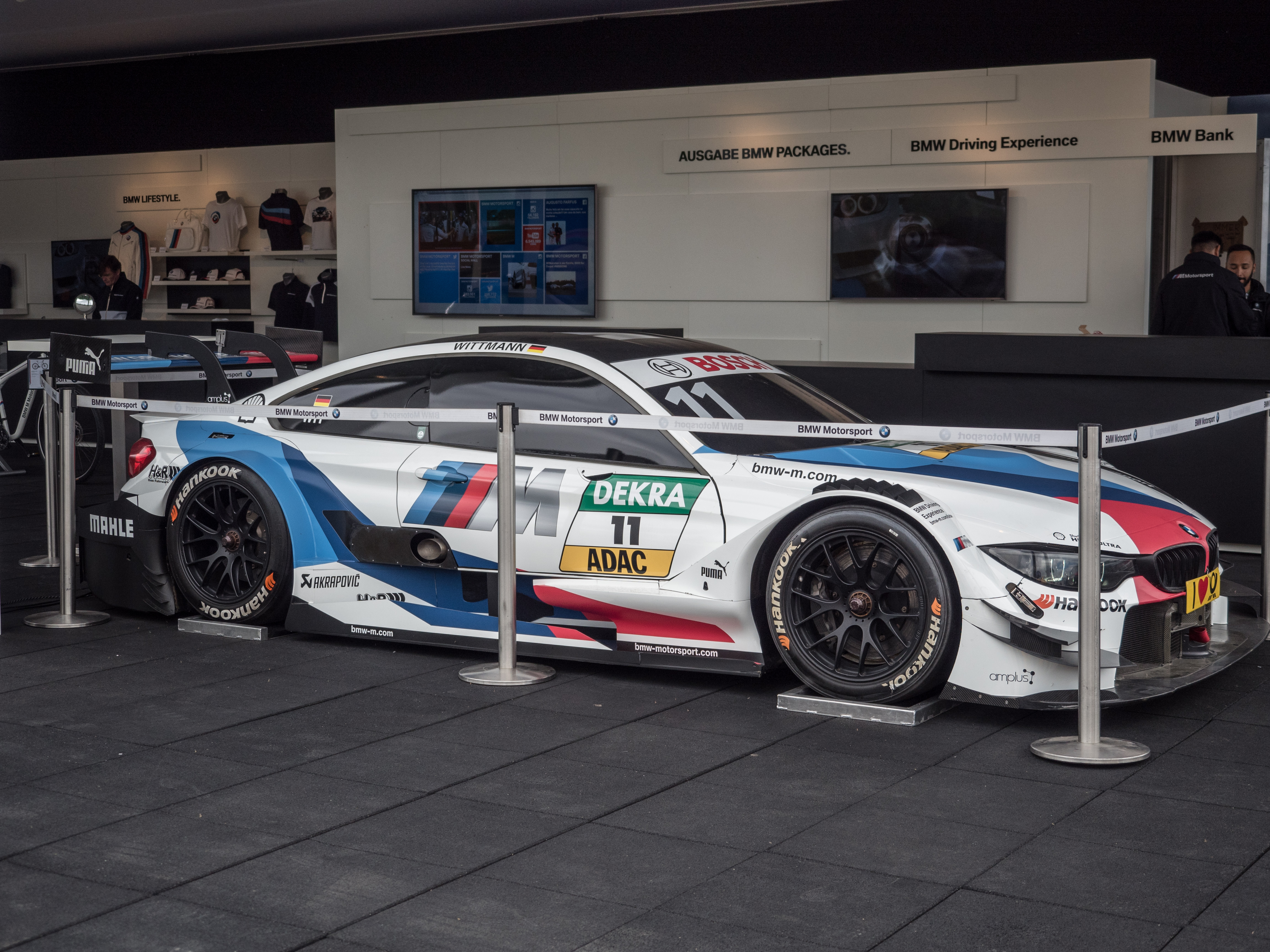 BMW M4 DTM 2018 of Marco Wittmann in Norisring 2018.